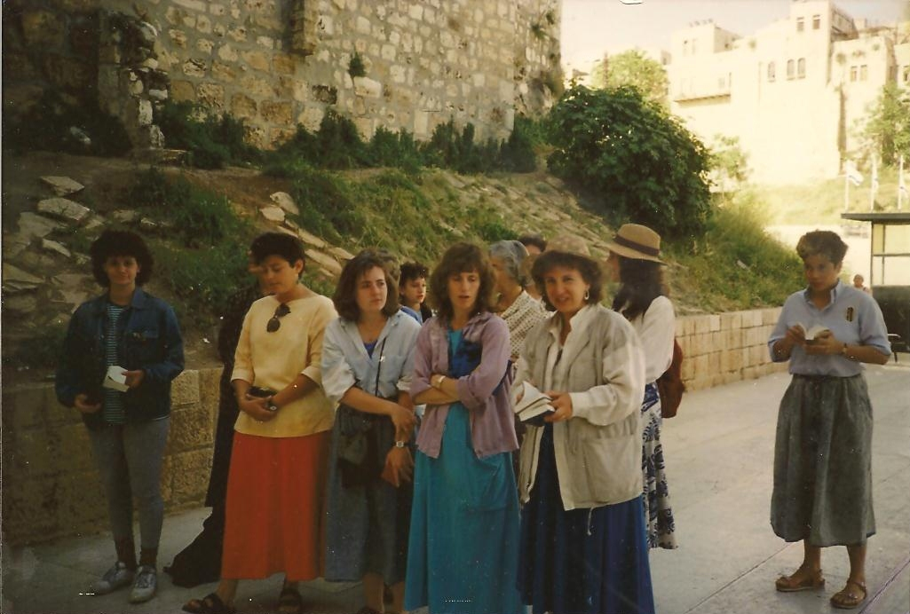 Women of the Wall prayer group